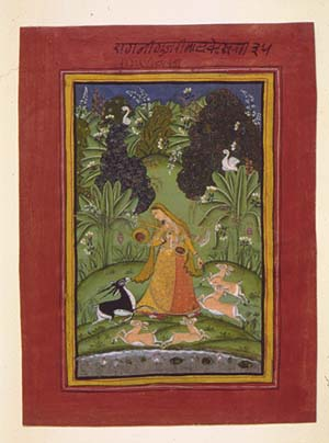 Todi Ragini, Ragamala, Bundi, Rajasthan, 1591. Opaque watercolor on paper, Rajasthan (Bundi)